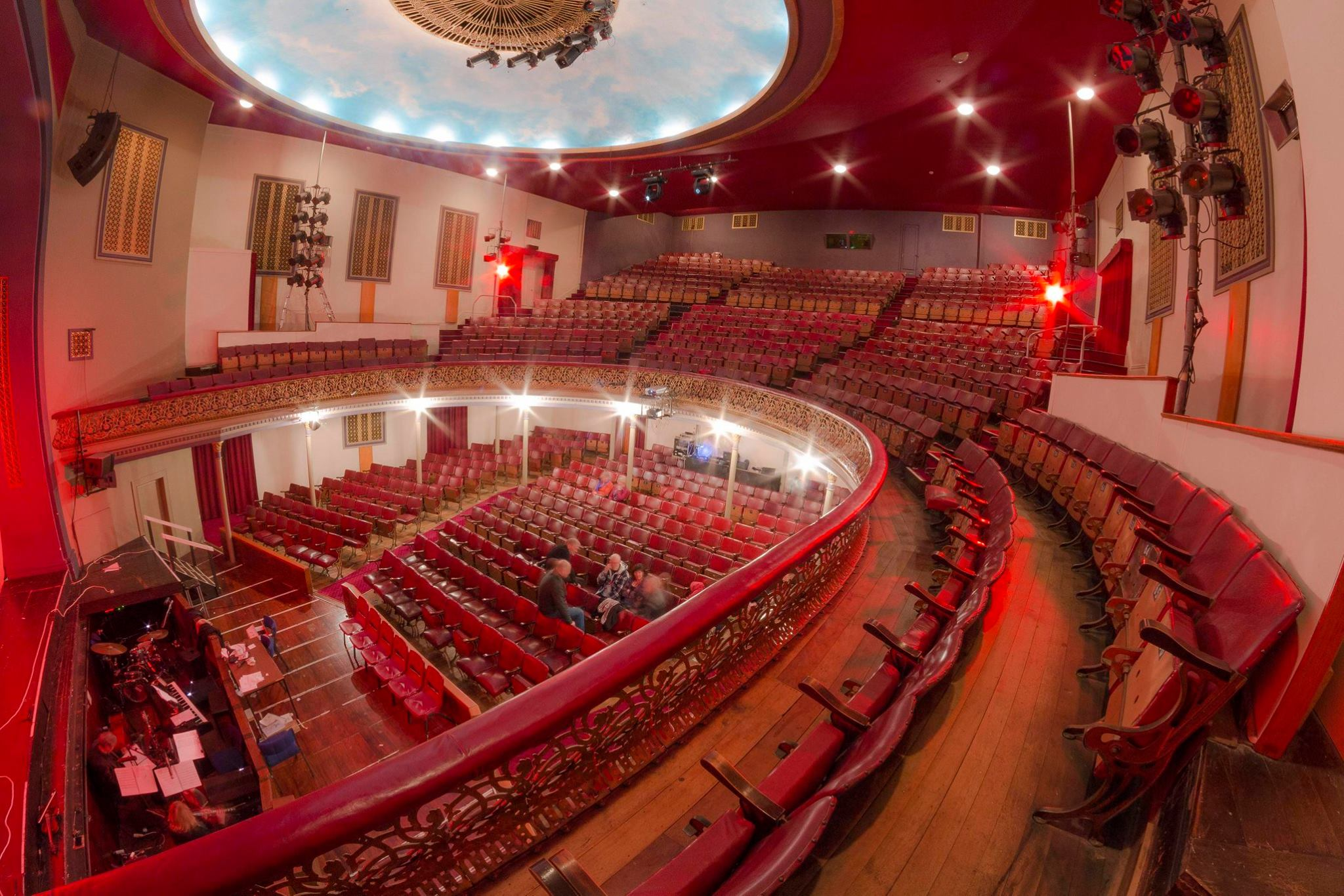 Interior